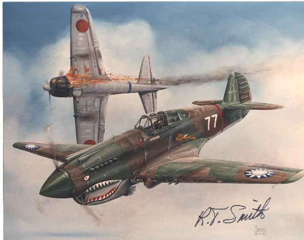 Catalog #: 01361 Subject: The Flying Tigers - China Title: R.T. Smith Autographed AVG, aviation art Repository: San Diego Air and Space Museum Archive